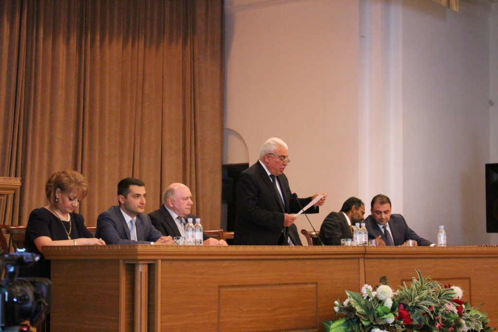 Former rector of ANAU, Arshaluys Tarverdyan with Texas A&M professor Daniel Dunn, former ATC director Vardan Urutyan and others.